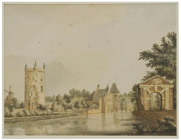 Castle Culemborg (Netherlands) 20 july 1750, made in 1872 by original of Jan de Beijer